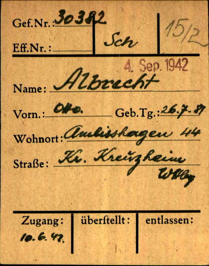 Registration card of Otto Albrecht as a prisoner at Dachau Nazi Concentration Camp.